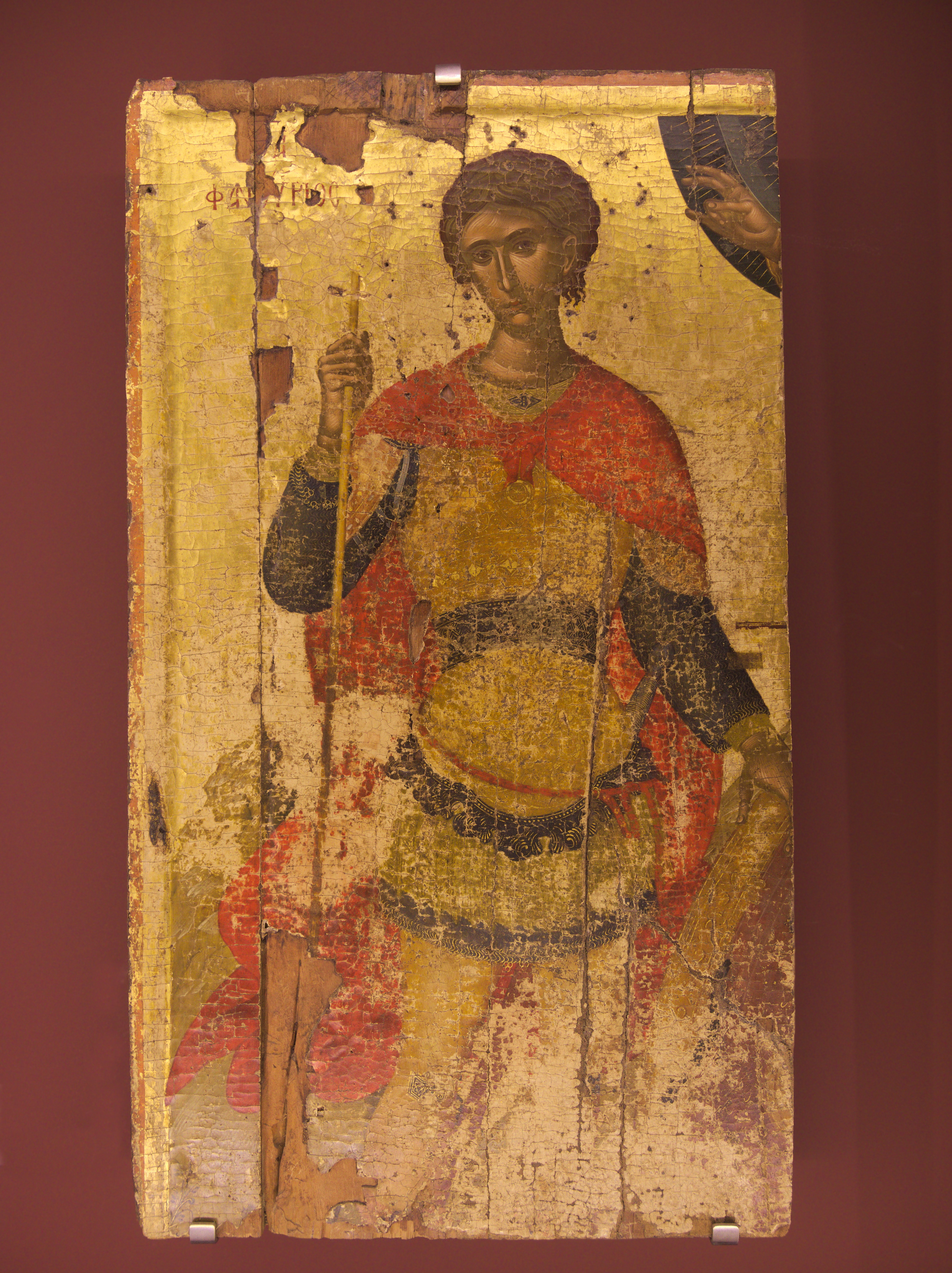 Icon of Saint Phanourios, painted by Angelos Akotantos (second quarter of 15th c). From the closter of Virgin Hodegetria at Pyrgiotissa, now part of Agia Aikaterini Collection, Heraklion.